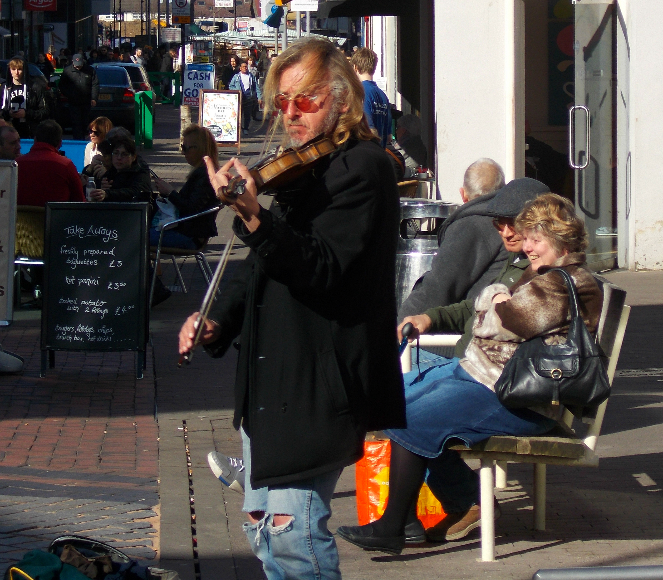 Sutton, Surrey, Greater London